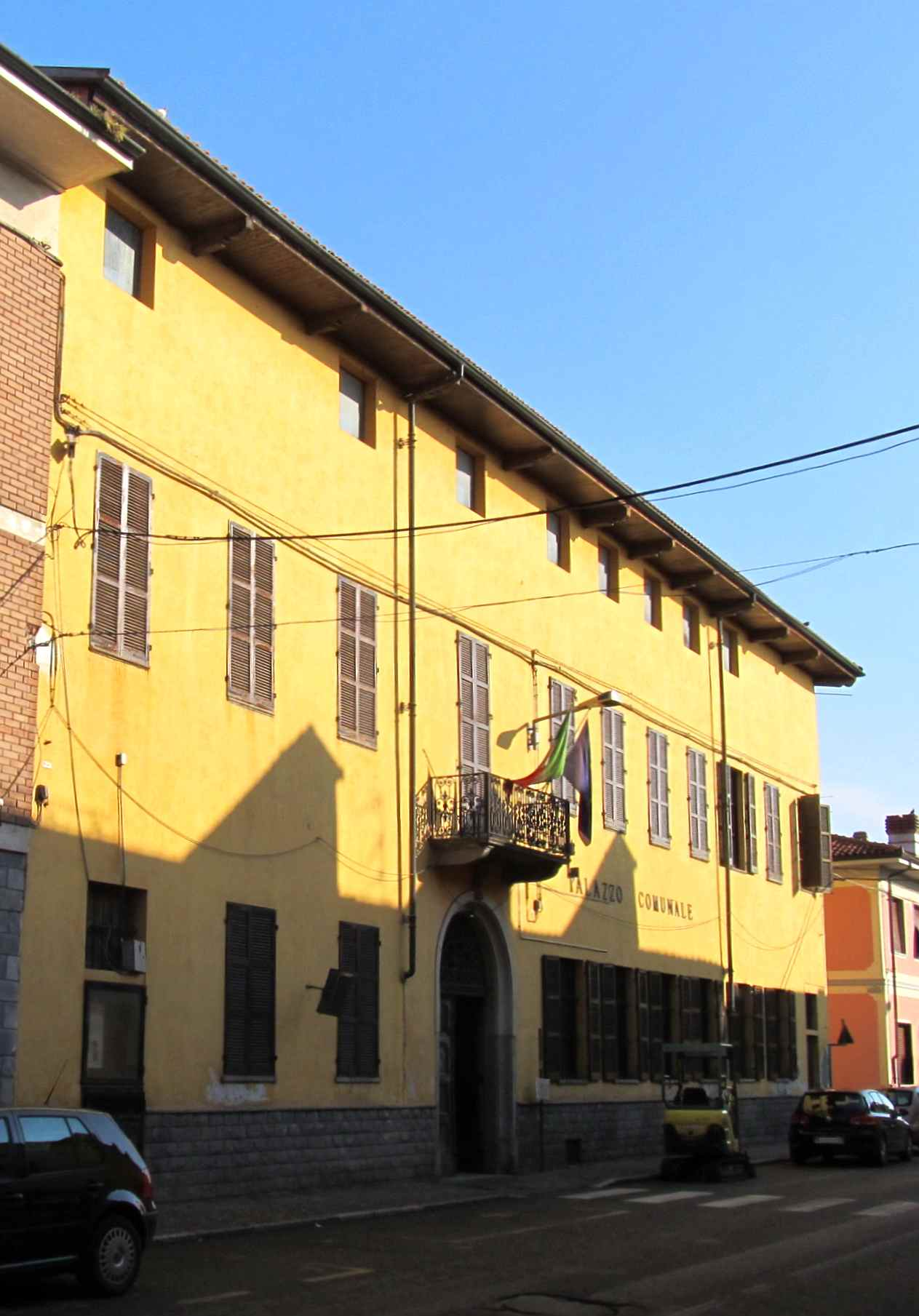 Borgo D'Ale (VC, Italy): town hall